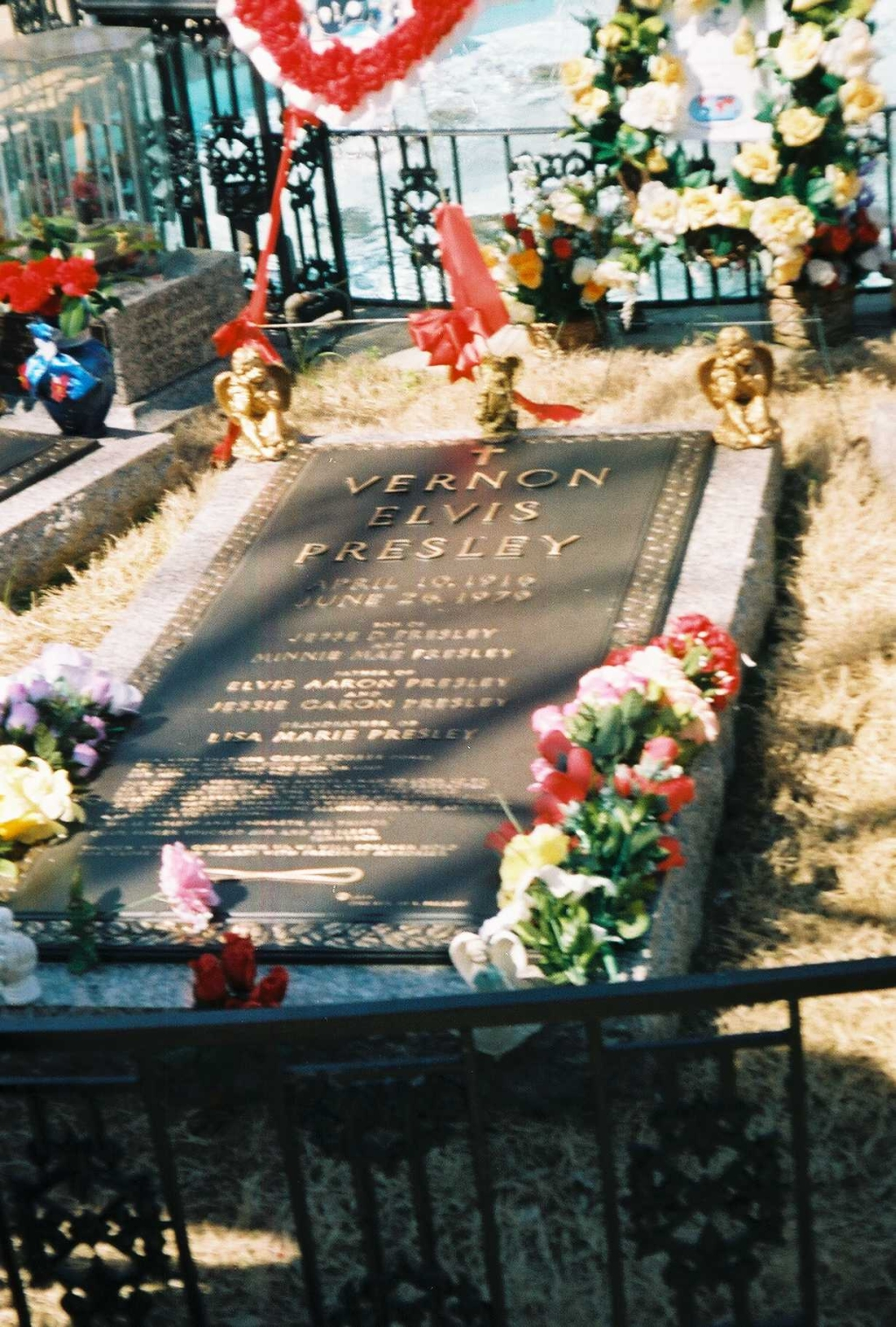 Graceland Cemetery at the Graceland Mansion on Elvis Presley Boulevard in Memphis, Tennessee. Grave of Vernon Elvis Presley.